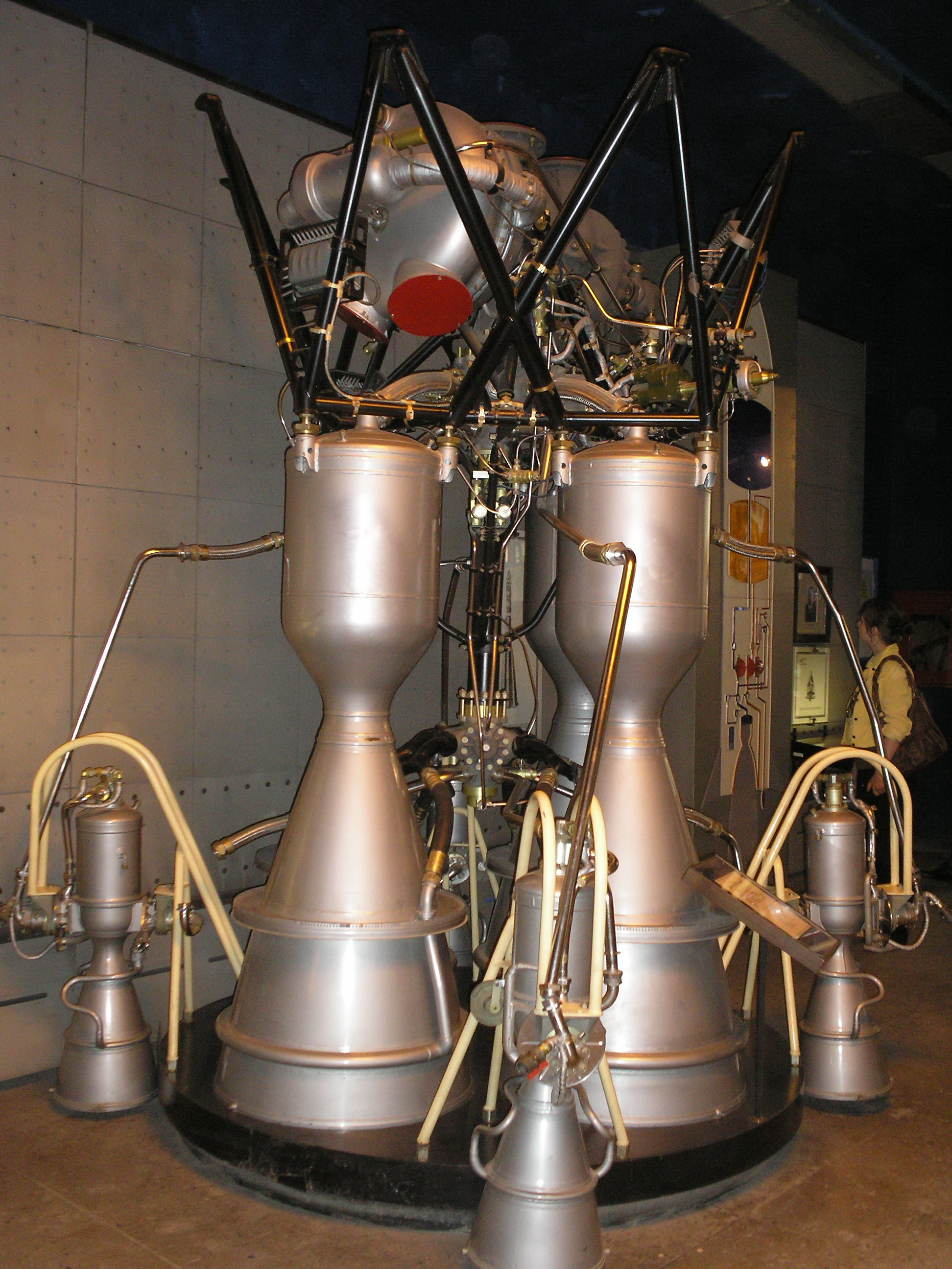 Rocket engine RD-108 "Vostok". St.-Petersburg. A museum of astronautics and the rocket technics.